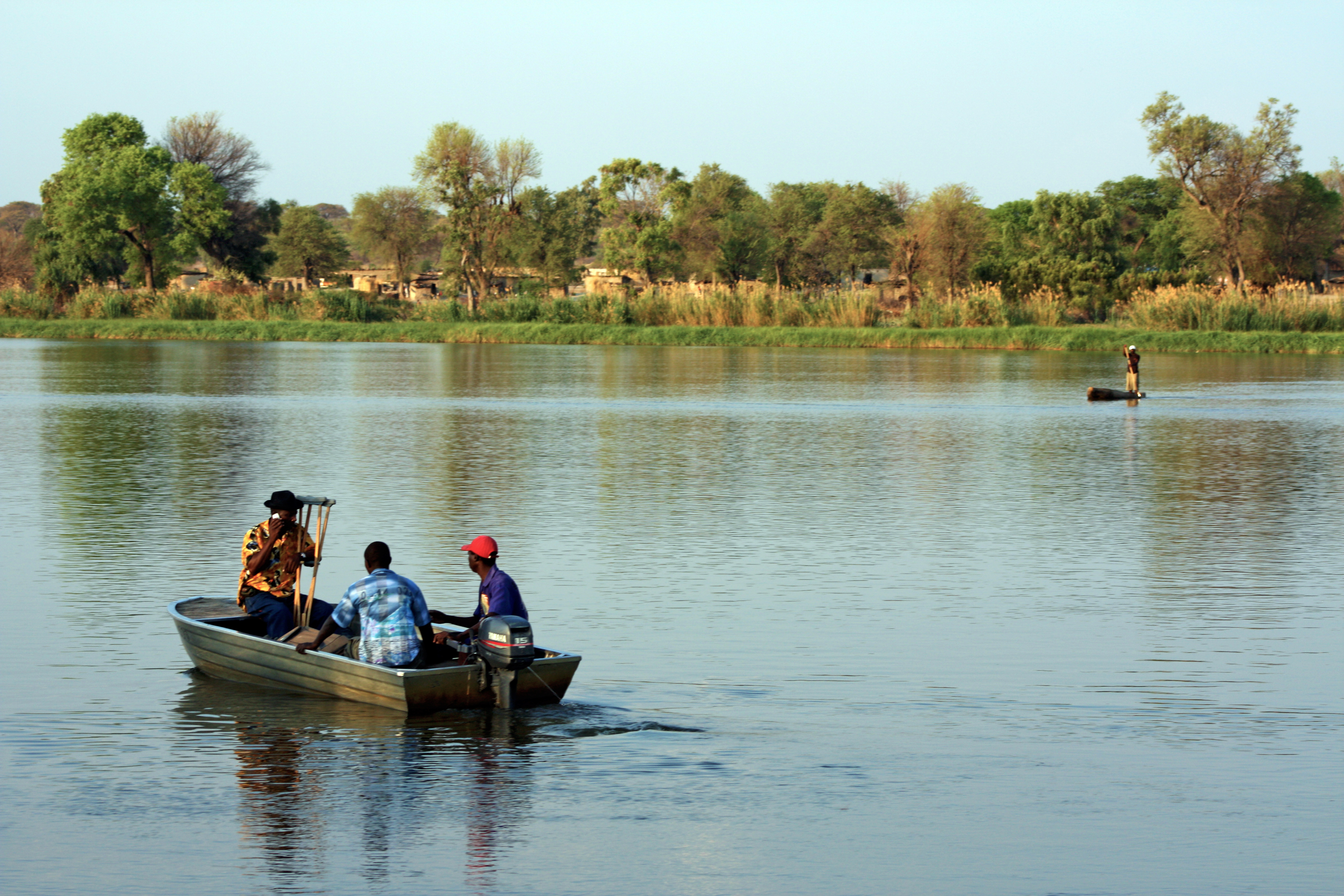 The fixed border crossing points in the form of bridges over the Okavango River between the two countries are few and far between. Most people who have relatives on either side of the river or do their shopping in Namibia resort to traversing the border by boat, be it motorized or a traditional carved canoe (known as wato, depicted in the distance). This is an image with the theme "Africa on the Move or Transport" from: Namibia